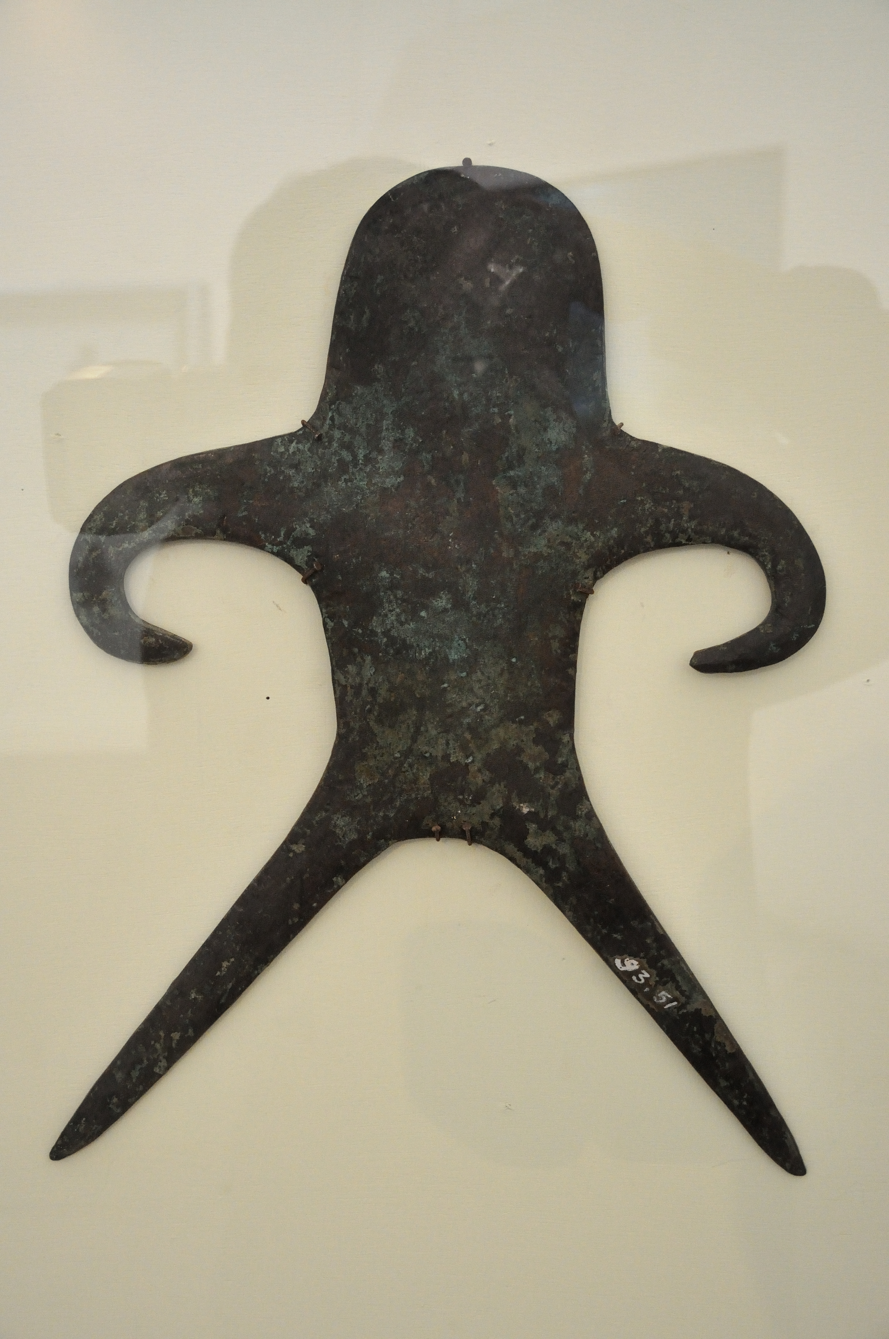 This artefact resides at the Government Museum, (hi: Rashtriya Sangrahalaya) formerly The Curzon Museum of Archaeology, Museum Road or Murari Lal Rajpal road, Dampier Nagar, Mathura, Uttar Pradesh, India. This museum is administrating by the State Government of Uttar Pradesh of India.